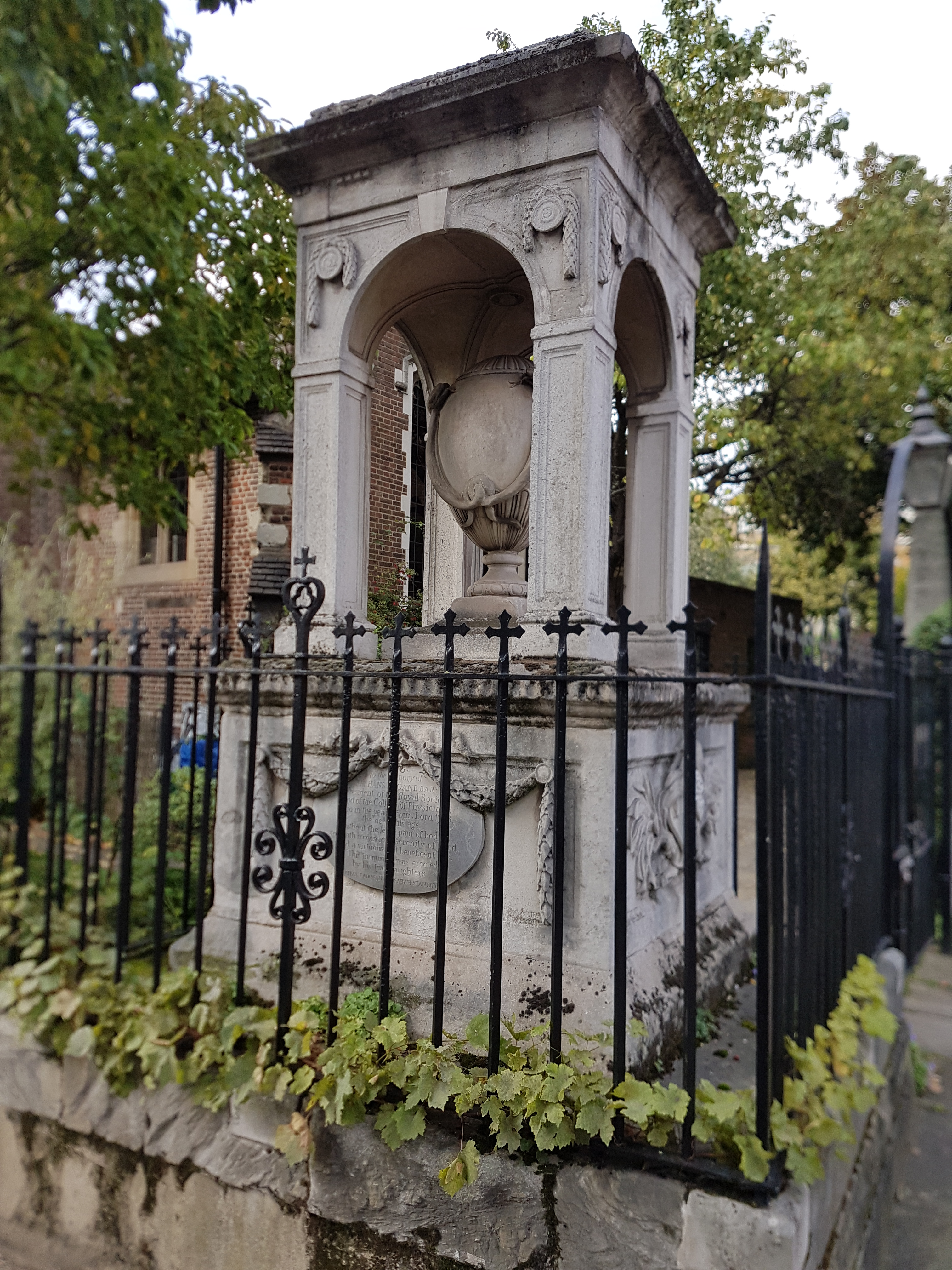 Monument To Sir Hans Sloane To South-East Corner Of All Saints Churchyard Wikidata has entry Q27085356 with data related to this item.